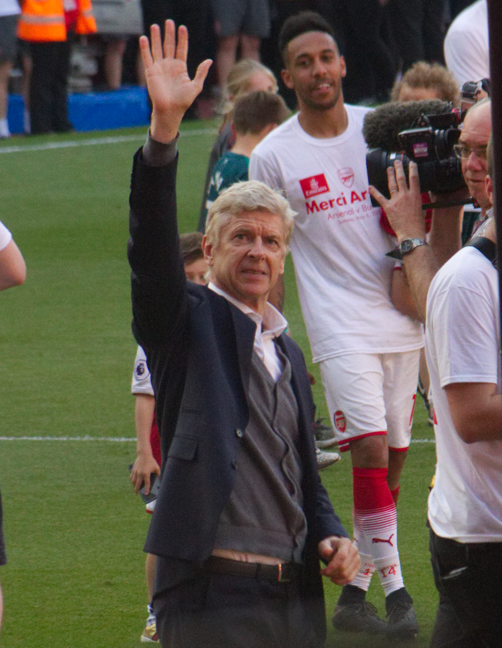 45 Merci Arsène - Lap of Appreciation